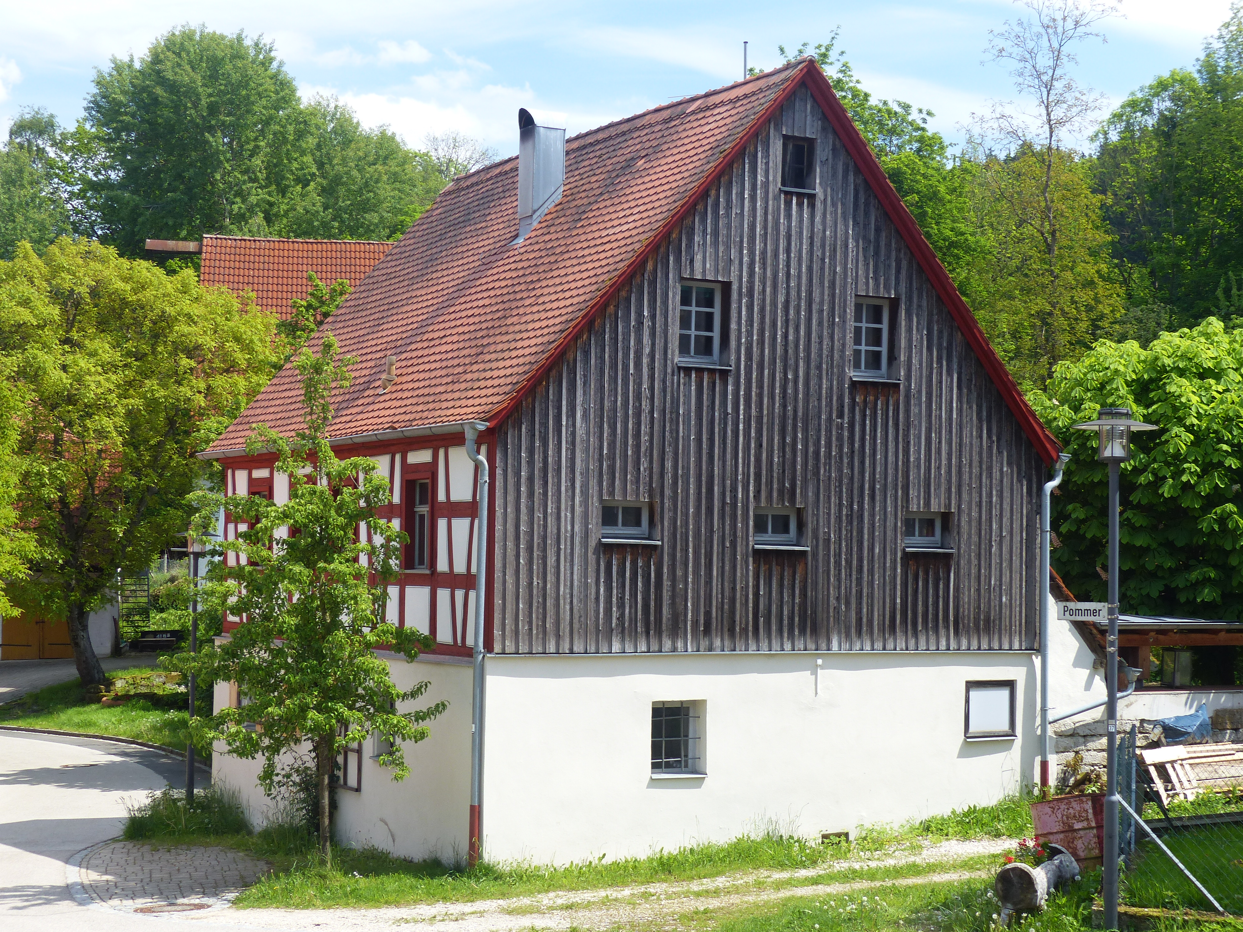 A farmhouse in the village Pommer, a district of the municipality of Igensdorf